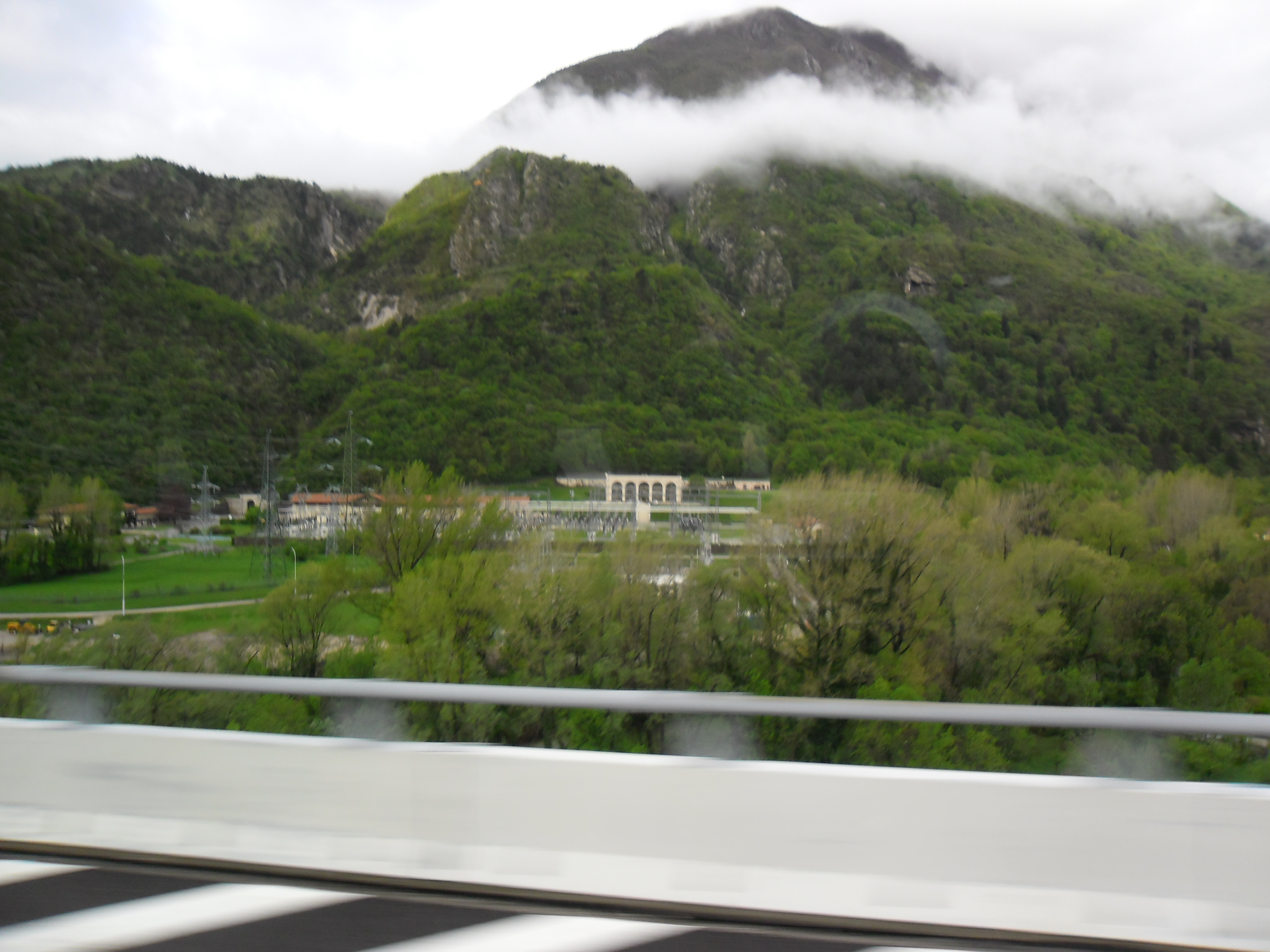 Hydropowerplant Somplano